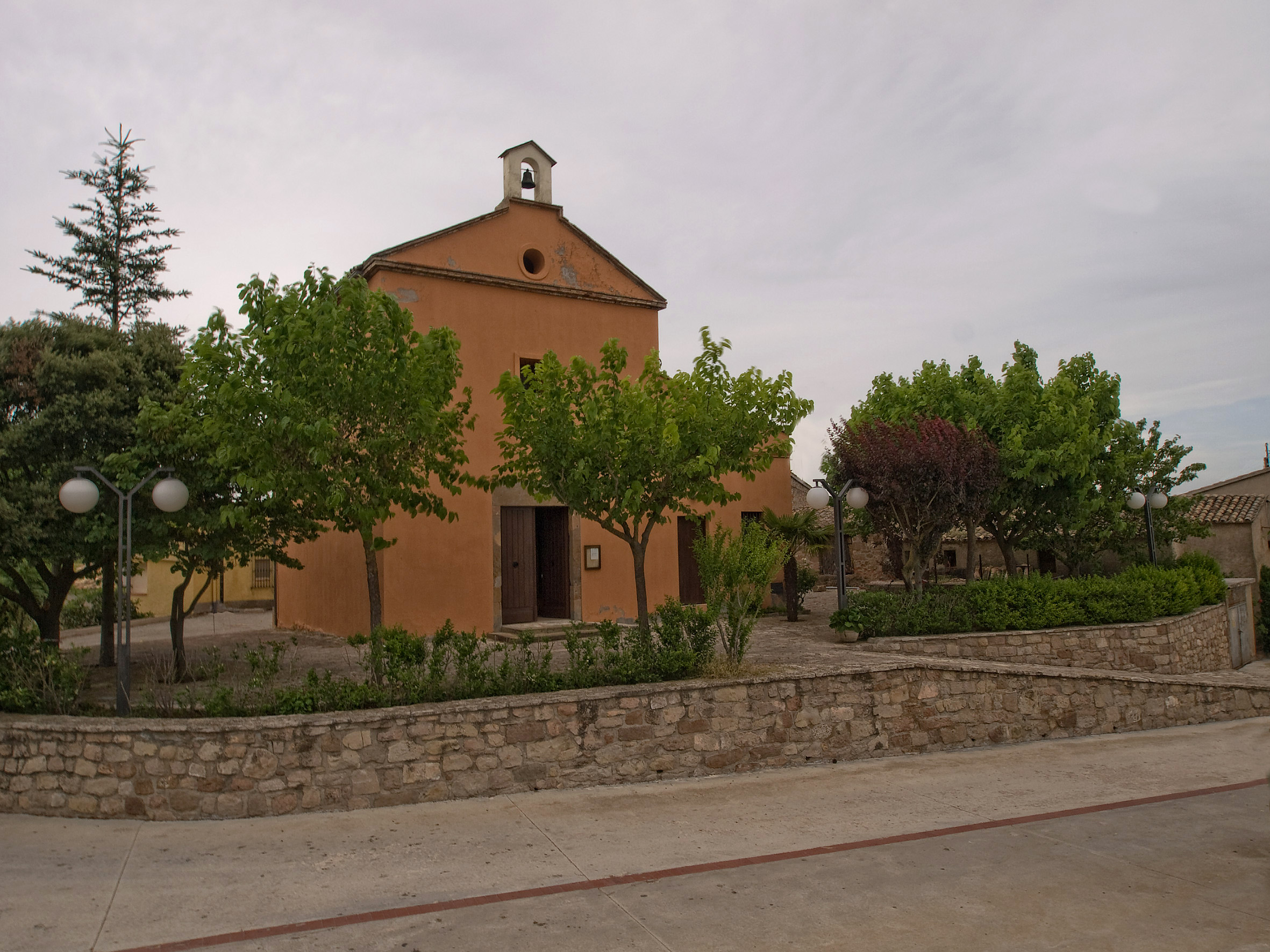 Castellfollit del Boix church (Catalonia, Spain)